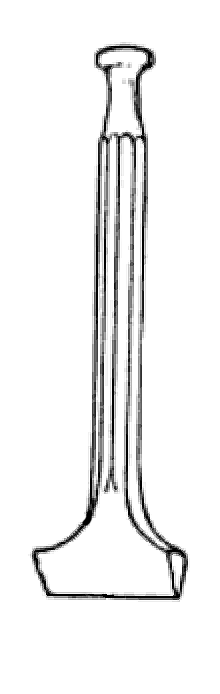 Drawing of a drove chisel used by stone masons to dress (shape) stones